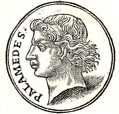 In Greek mythology, Palamedes was the son of Nauplius and either Clymene or Philyra or Hesione.